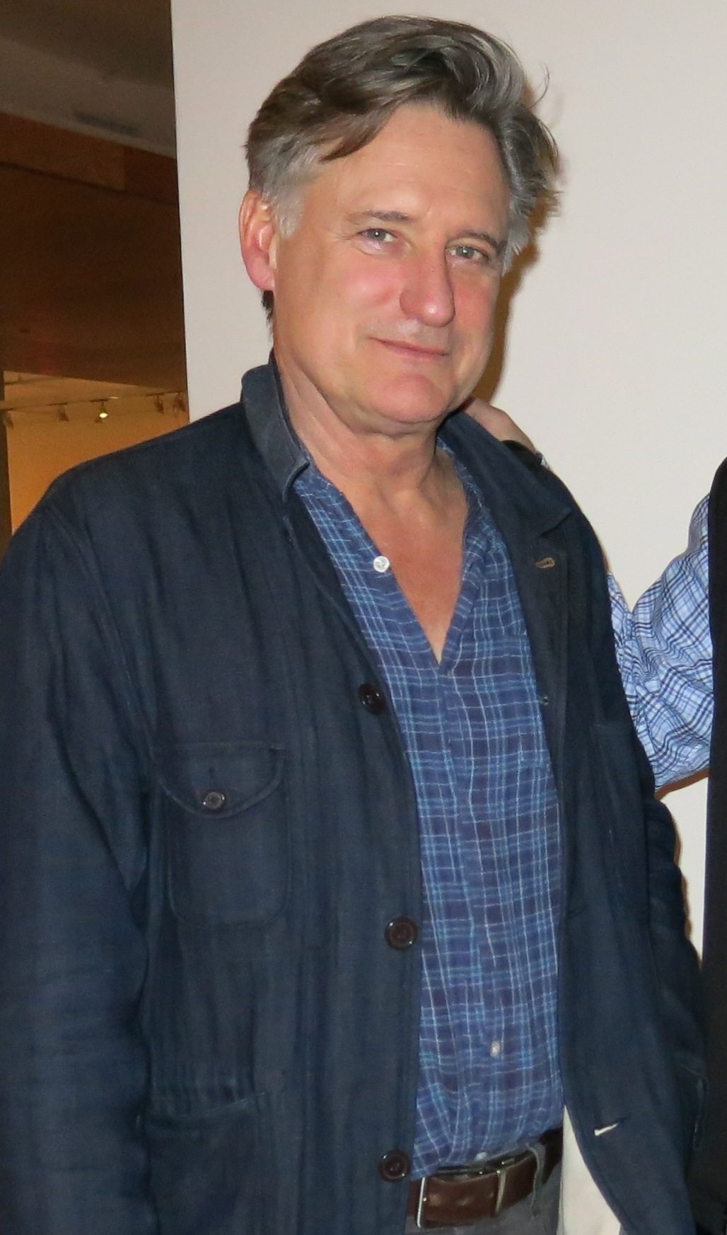 Bill Pullman in New York City, 2014